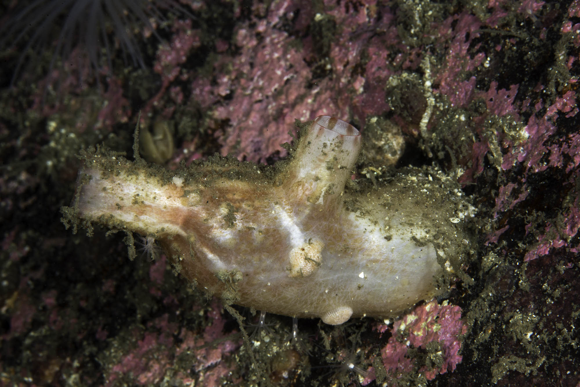 The sea squirt Polycarpa pomaria, Gulen, Norway.